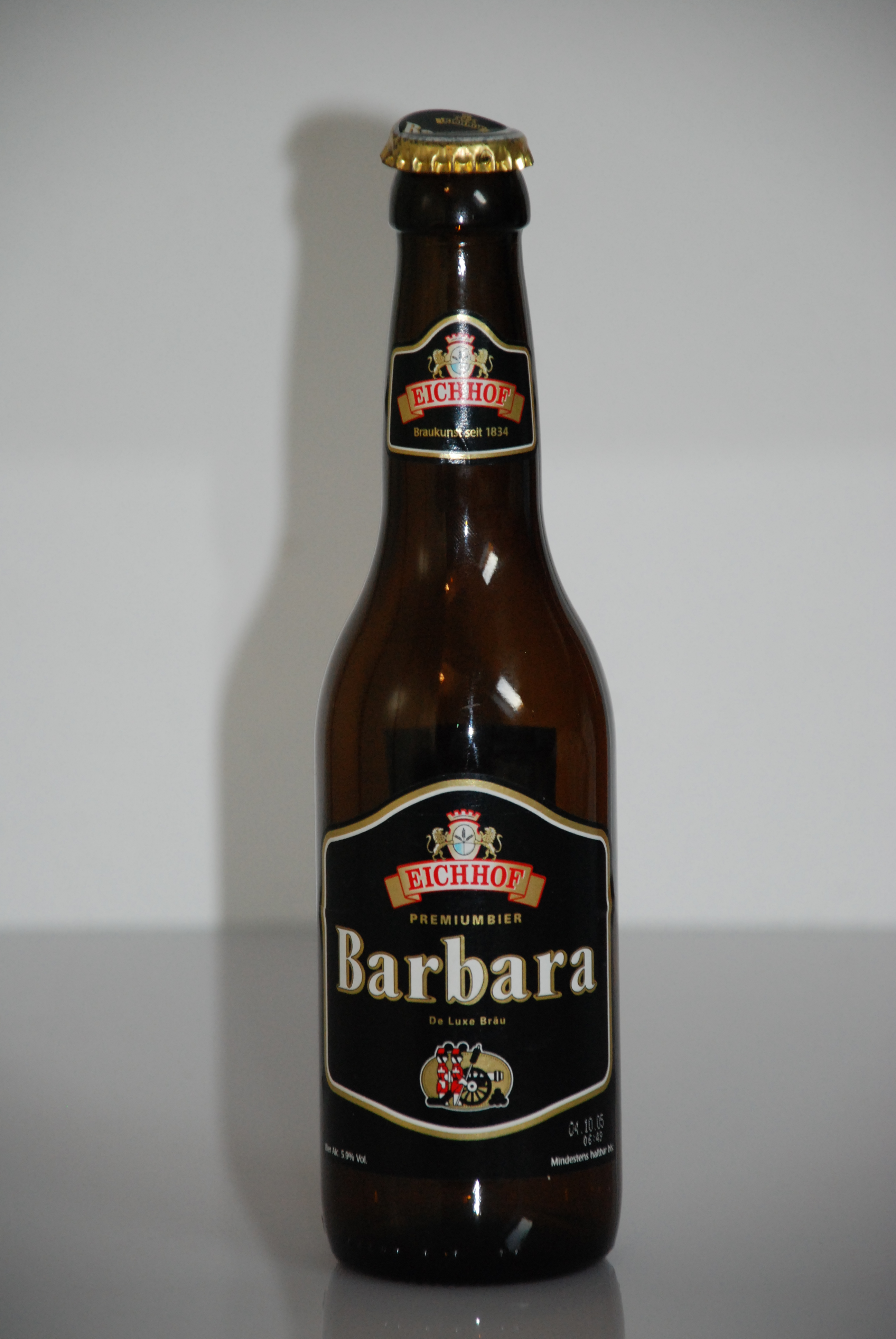 Bottle of Eichhof Barbara beer.